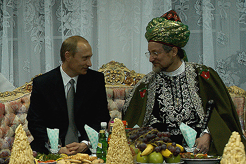 Ufa. President of Russia Vladimir Putin and Chief Mufti of the Spiritual Directorate of Muslims of Russia Talgat Tadzhuddin